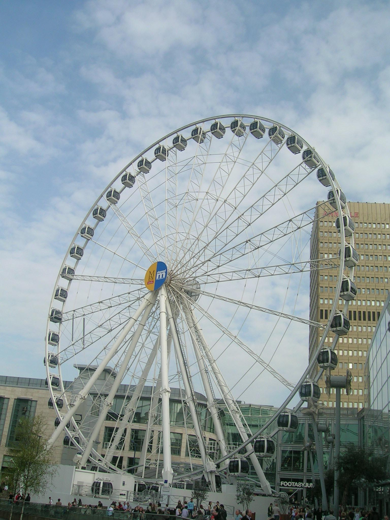 Where would this fine city be without it?